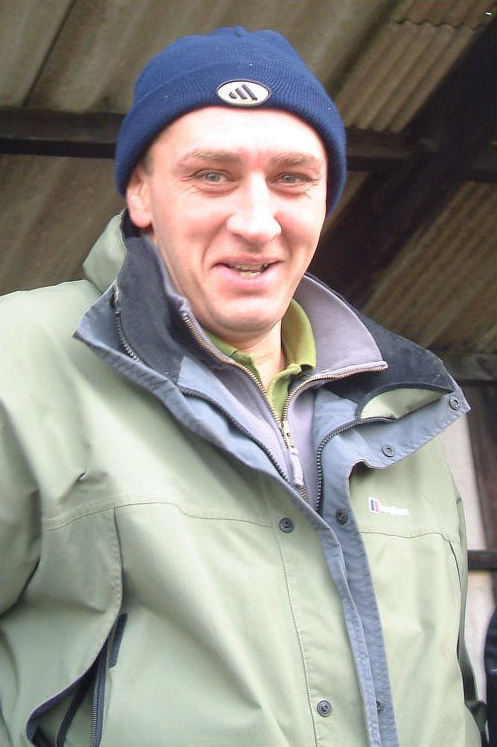 Cristian Răducanu, Romanian rugby union international and one of the youngest men ever to play in the Rugby World Cup, pictured spectating at his Sedgley Park RUFC club in Manchester, England, while injured during the 2004-2005 season. Raducanu had defected to Britain while playing for Romania in Scotland in December 1989